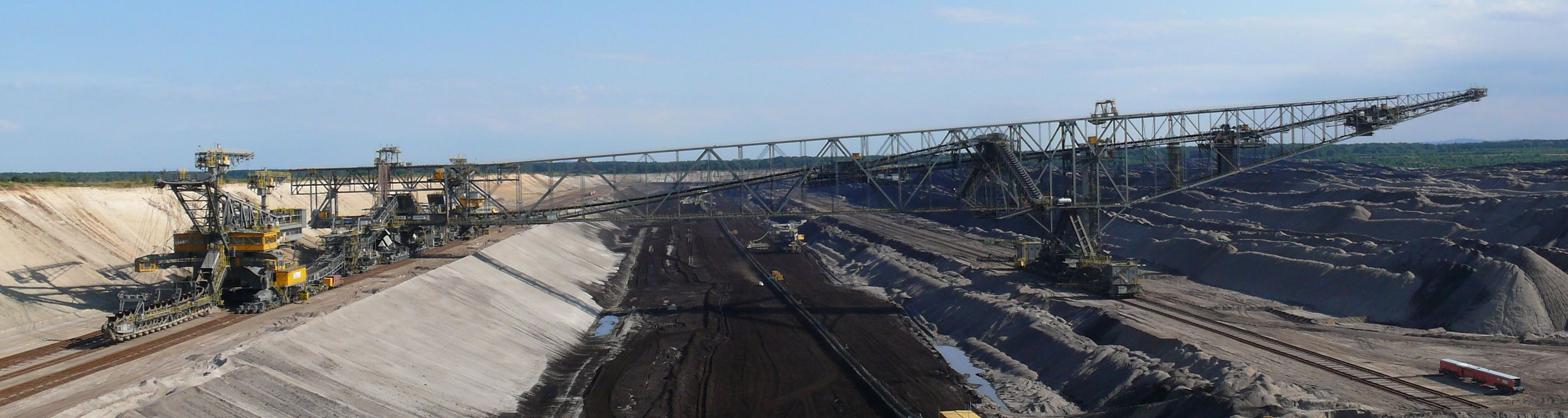 Overburden Conveyor Bridge of type F60 in the open cast mining Reichwalde, Lusatia, Germany.